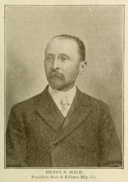 Henry S. Hale, a Philadelphia inventor and industrialist, the president of the Hale & Kilburn company of Philadelphia. From the Daily Street Railway Review, 1905, vol XY.